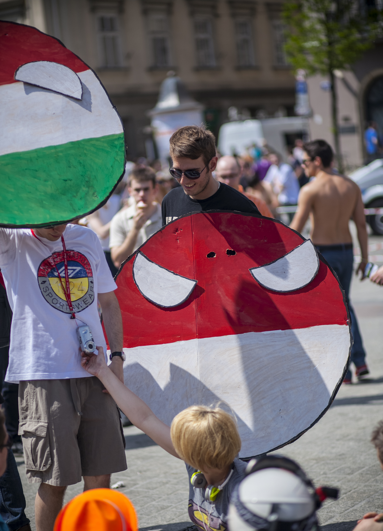 Participants in 2013 "Juwenalia krakowskie" celebrations holding a Polandball representation of Poland (right) and Hungary (left)